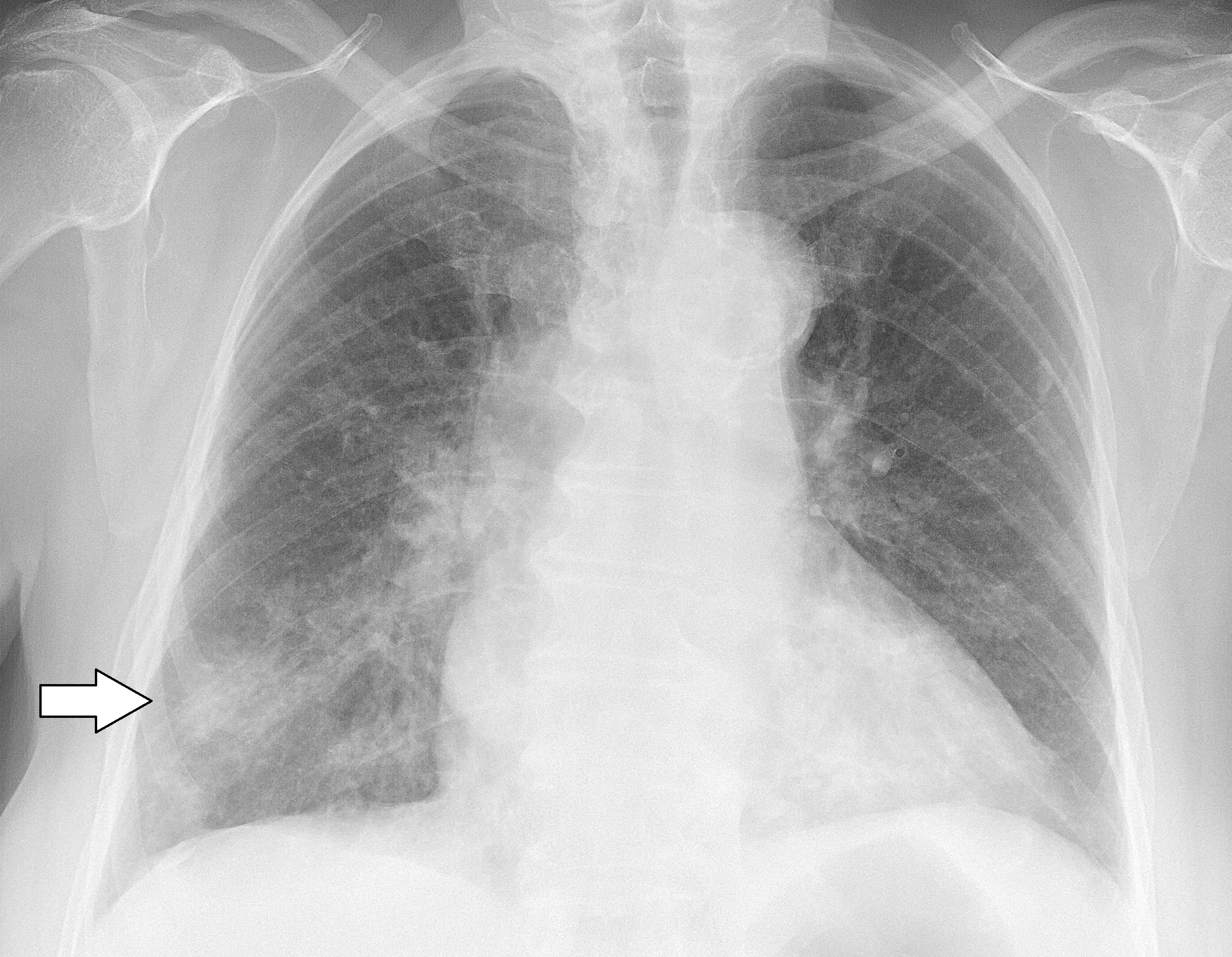 edit Chest X-ray of a 76 year old woman, who developed cough and labored breathing. First testing showed influenza B virus, and later a nasopharyngeal swab detected Haemophilus influenzae. The H influenzae presumably developed as an opportunistic infection secondary to the flu. This X-ray was taken 2 weeks after cultures and start of antibiotics, showing delayed pneumonic infiltrates.